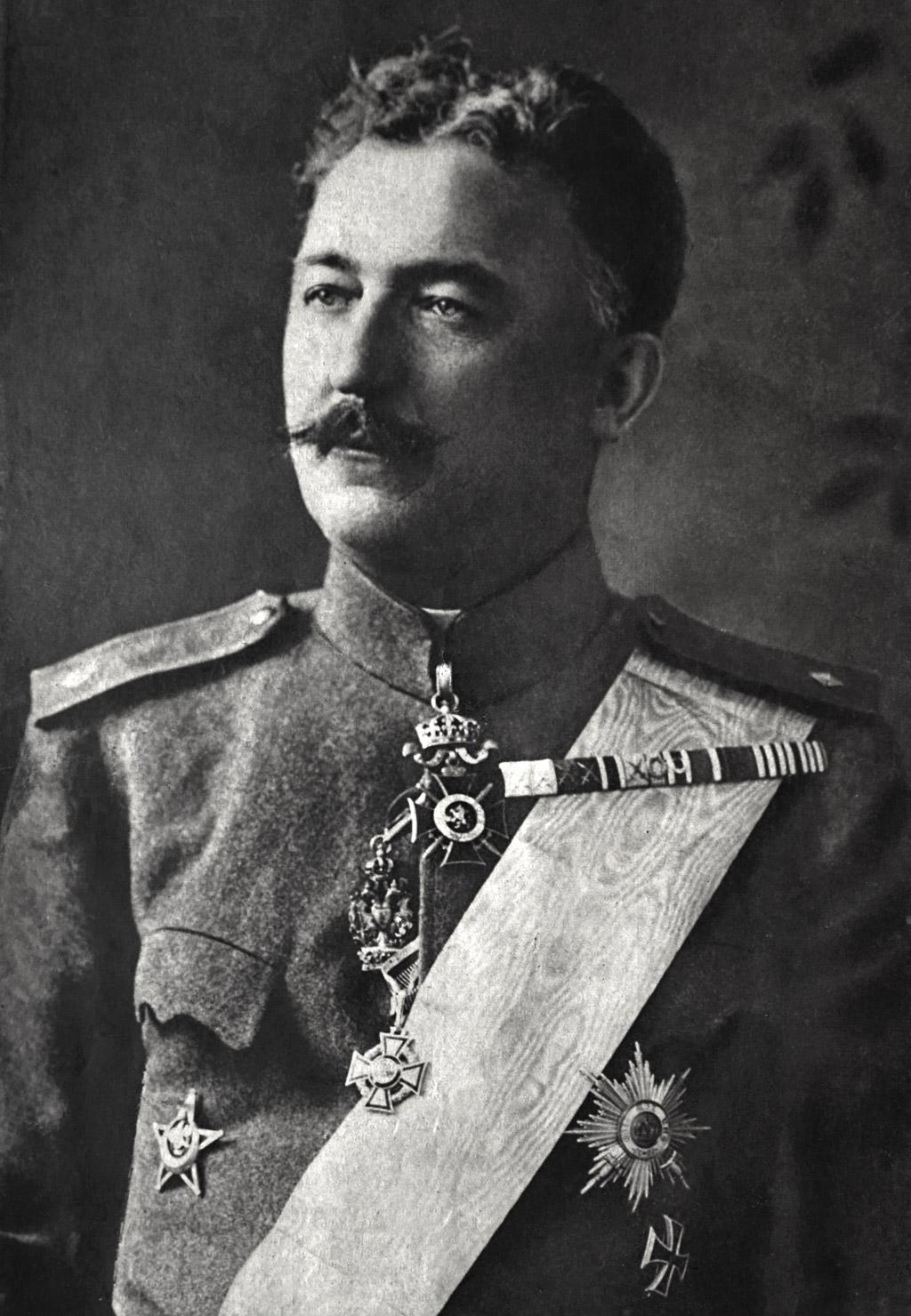 General Alexandar Protogerov in parade uniform of bulgarian army